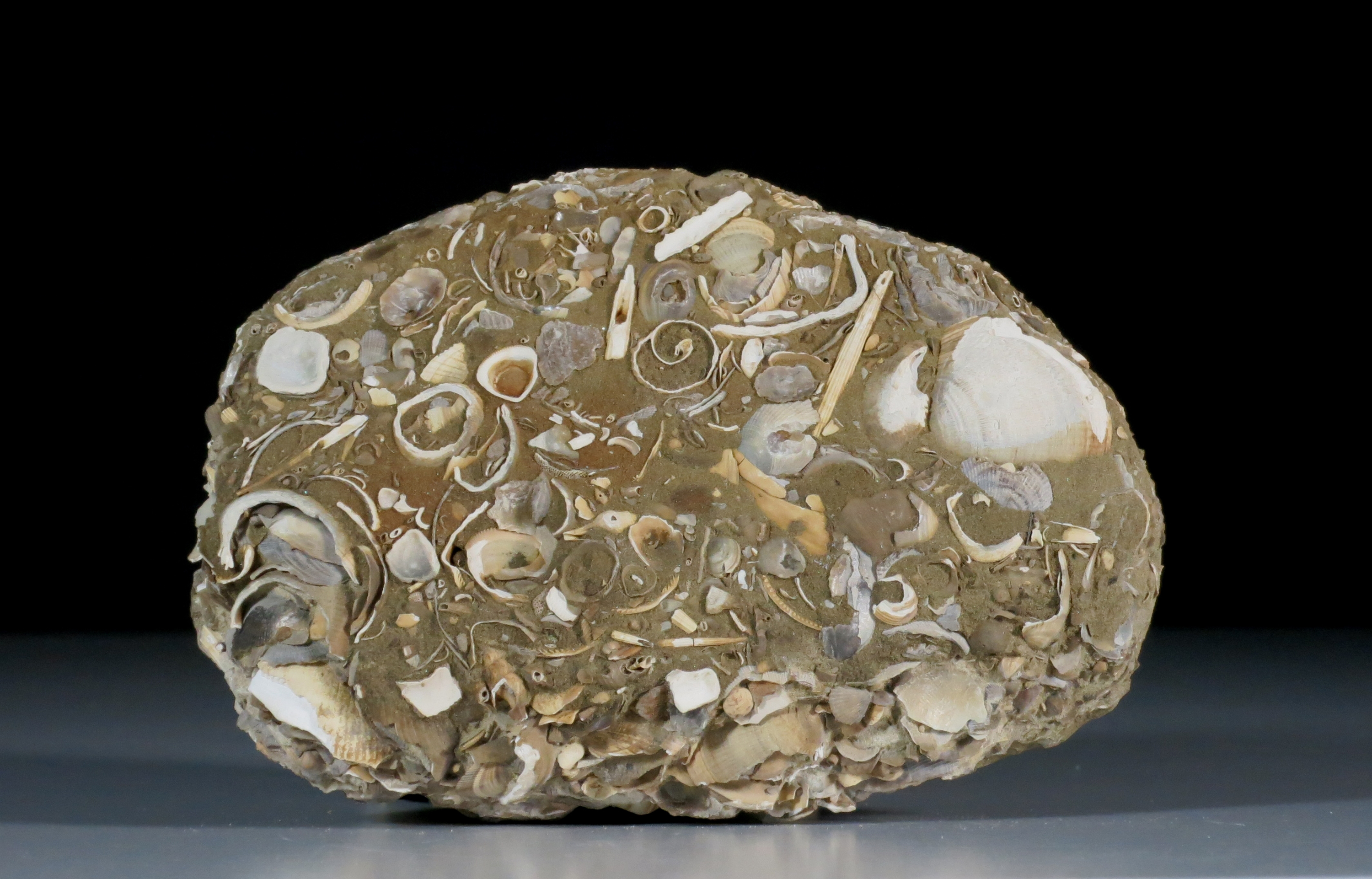 “Sternberger Kuchen” (“Sternberg cake”), a large late Pleistocene glaciofluvial pebble of a highly fossiliferous, shallow marine sandstone of the North German Paleogene (Sülstorf beds, formerly known as “Sternberg rock”, Chattian, Oligocene, about 25 million years old). The fossil content is mainly made up of mollusks (pelecypods, gastropods, scaphopods). Provenance: Sternberg, Mecklenburg-Vorpommern, Northeast Germany.